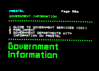 Description Page Prestel Date1981SourceOwn work by the original uploaderAuthorBernard MARTI Page Prestel